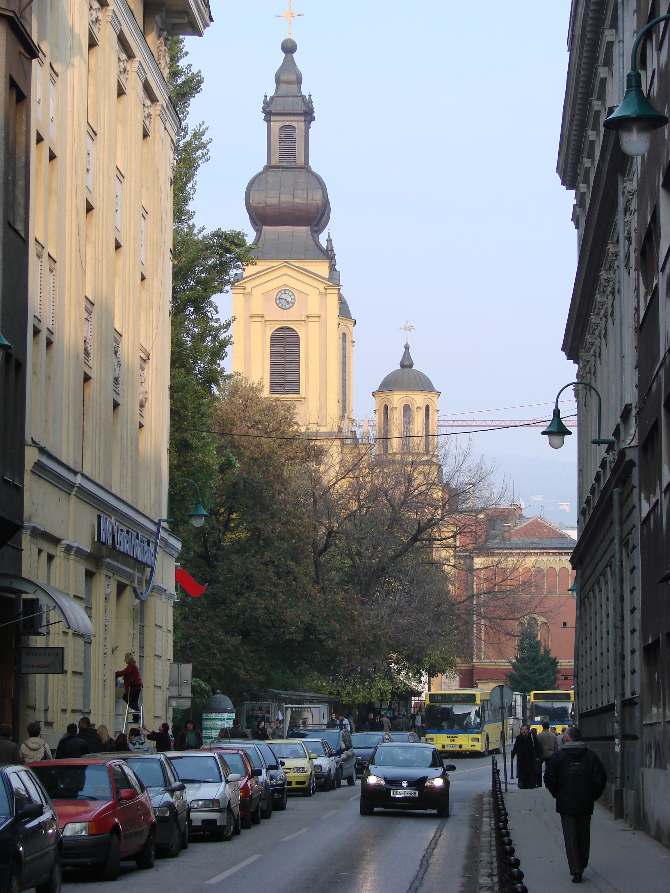 The scene in downtown Sarajevo.